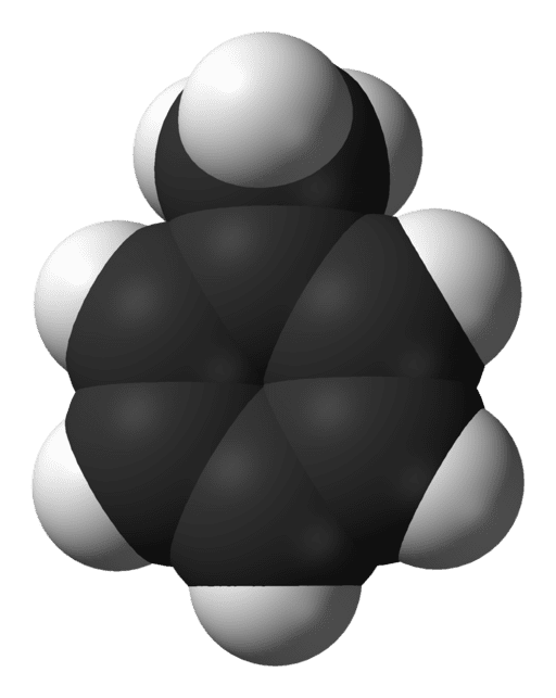 Space-filling model of the toluene molecule, C7H8, as found in the crystal structure. X-ray crystallographic data from J. Chim. Phys. Phys.-Chim. Biol. (1977) 74, 68-73. Model constructed in CrystalMaker 8.1. Image generated in Accelrys DS Visualizer.